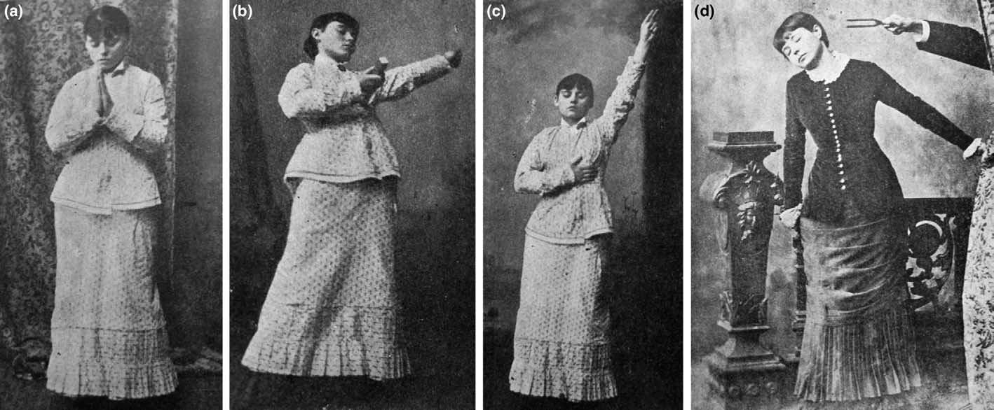 “Behavioural” experiments under hypnosis at the Budapest clinic of the Department of Mental Health and Pathology. (a) Hypnotic suggestion of praying. (b) Hypnotic suggestion of suicide. (c) Hypnotic suggestion of swearing an oath. (d) Hypnosis produced by the tuning-fork. Photographs reproduced from Ka´ roly Laufenauer, Eloadasok az idege let vilagabo l (Lectures in the World of Nerve-Life). Budapest: Kiralyi Magyar Terme szettudomanyi Tarsulat, 1899.